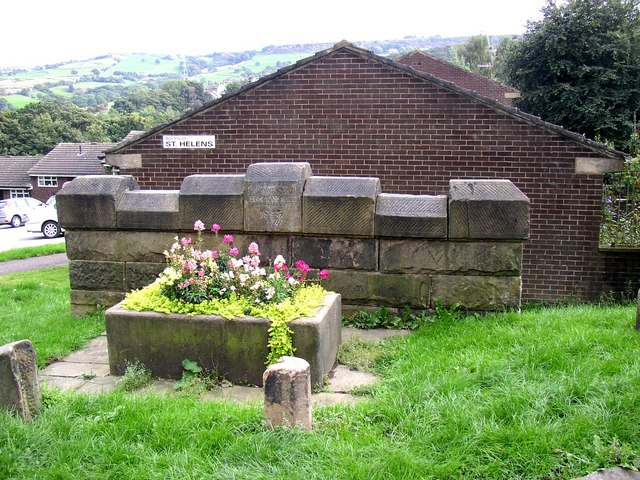 Holy Well, Holywell Green, Stainland The inscription reads 'Holy Well improved 1843', but there does not seem to be a well now, only a trough with plants in it. St Helen's Well was some distance away at Helen Hill Farm along Jagger Green Lane.